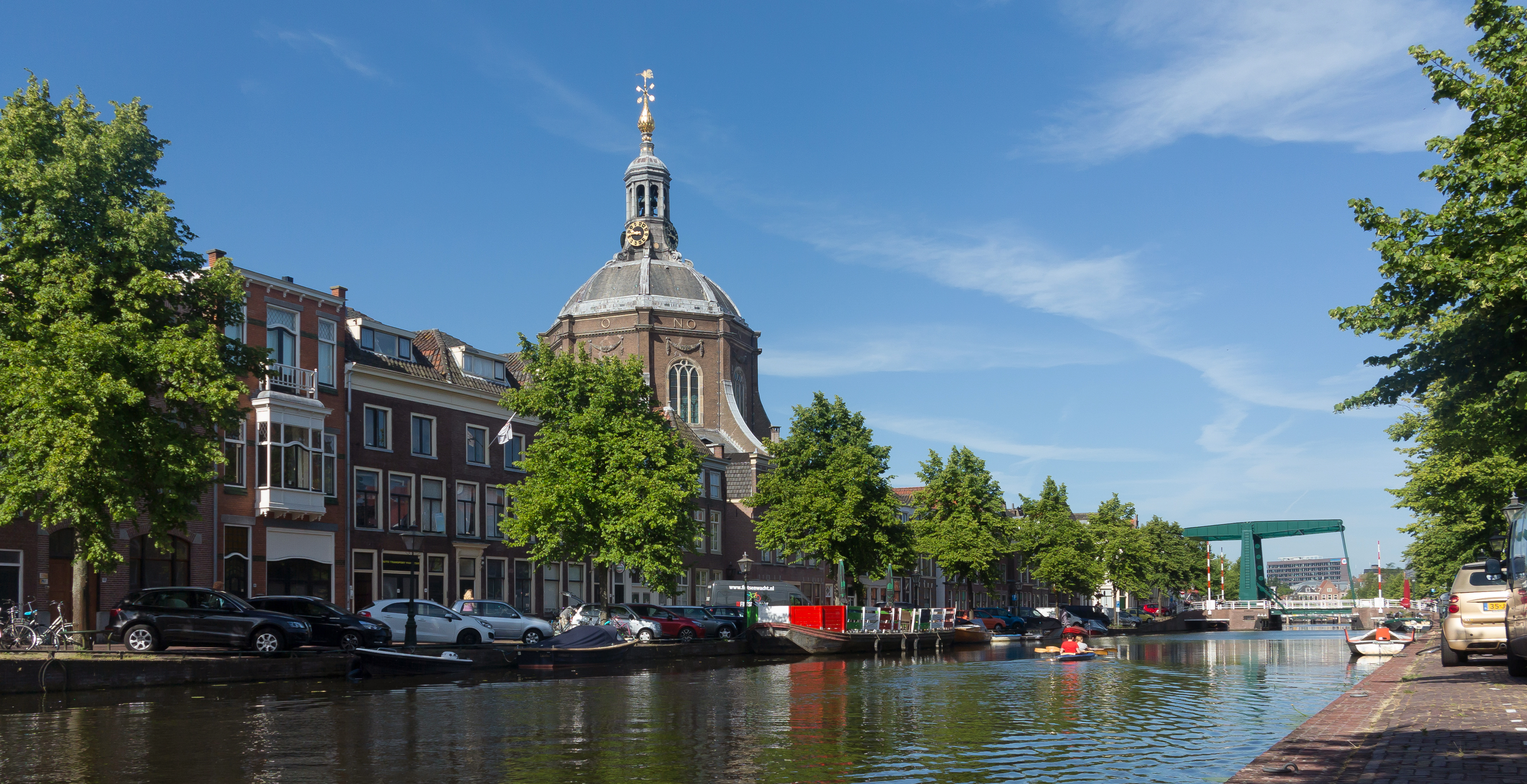 Leiden, church (de Marekerk) and drawing bridge (de Marebrug)